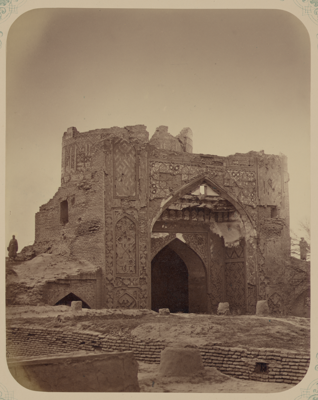 This photograph of the ruins of the Kok-Gumbaz Madrasah in Ura-Tyube (present-day Istarawshan, Tajikistan) is from the archeological part of Turkestan Album. The six-volume photographic survey was produced in 1871–72 under the patronage of General Konstantin P. von Kaufman, the first governor-general (1867–82) of Turkestan, as the Russian Empire’s Central Asian territories were called. Ura-Tyube (in Tajik, Ura-Teppa) is one of the oldest settlements in Central Asia. Located near the Syr Darya River some 80 kilometers southwest of Khujand, Ura-Tyube flourished under the Timurid dynasty in the late 14th and 15th centuries. A major monument from the Timurid period is Kok-Gumbaz, which served as both a mosque and a madrasah (religious school). It was apparently built by ‘Abd al-Latif (circa 1420-50), the eldest son of the astronomer king Ulugh Beg and great-grandson of the conqueror Timur (Tamerlane). Its name refers to an original light blue dome, destroyed with much of the structure from earthquakes in this seismically active area. The structural core is still visible, as are fragments of the intricate ceramic work. The facade of the iwan arch (the main entrance) is decorated with panels of polychrome tiles, including majolica work. The drum that supported the dome has remnants of a monumental inscription that formed part of the ceramic decoration. Archaeological sites; Islamic architecture; Mosques; Photographic surveys; Ruins